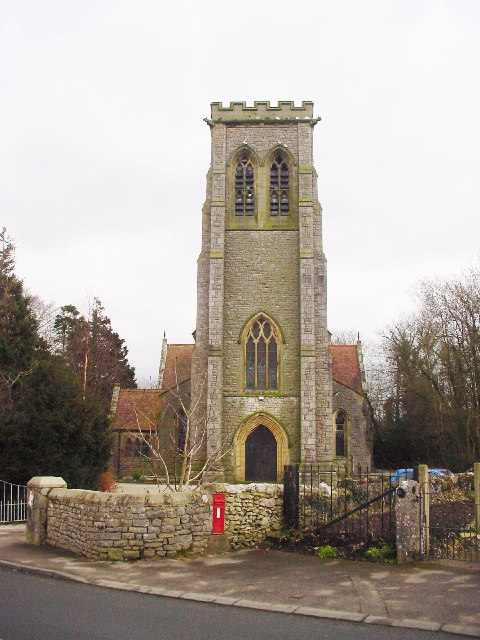 Silverdale, Lancashire, England, UK - parish church of St John